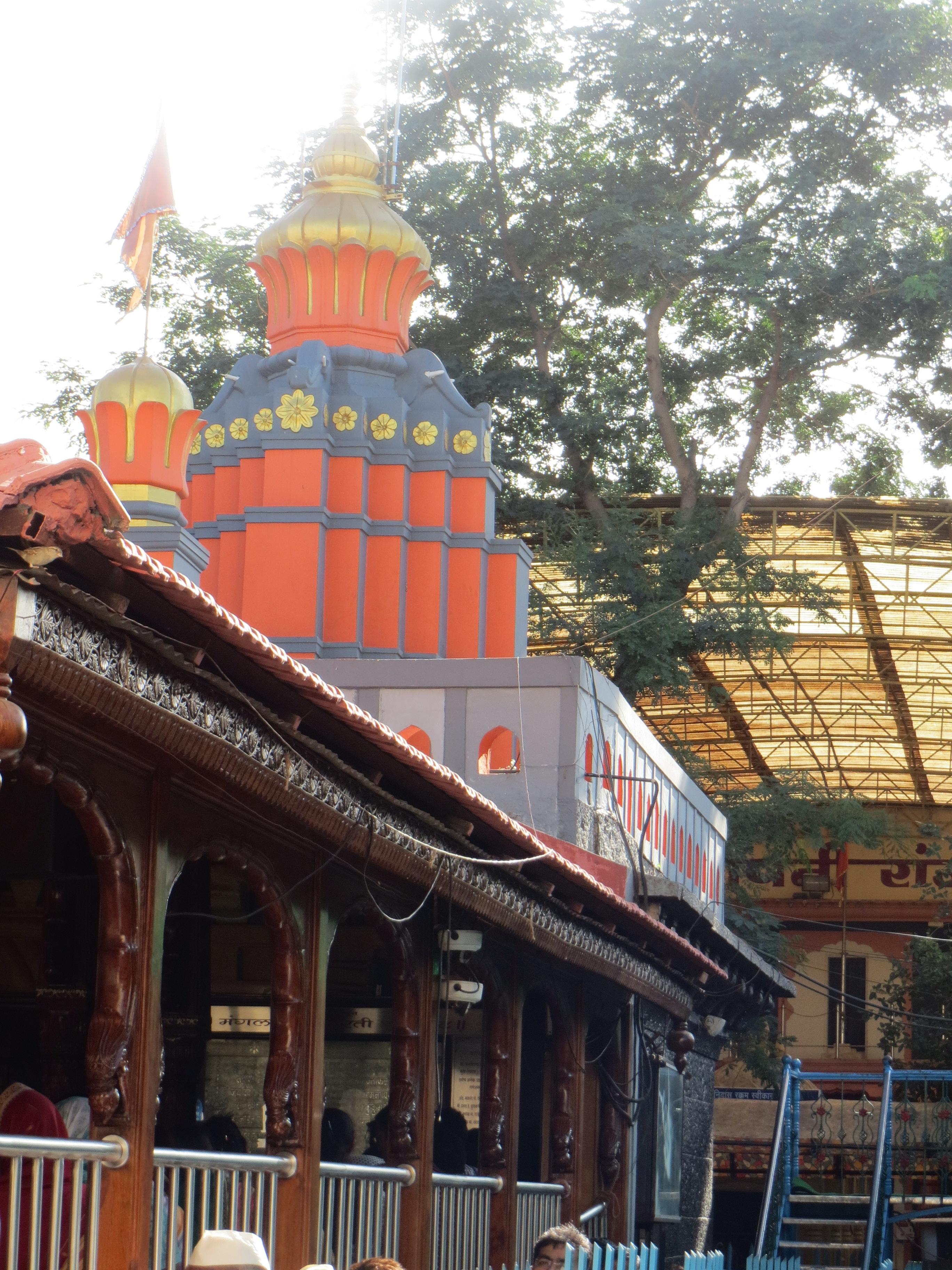 Ranjangaon Mahaganapati Temple viman